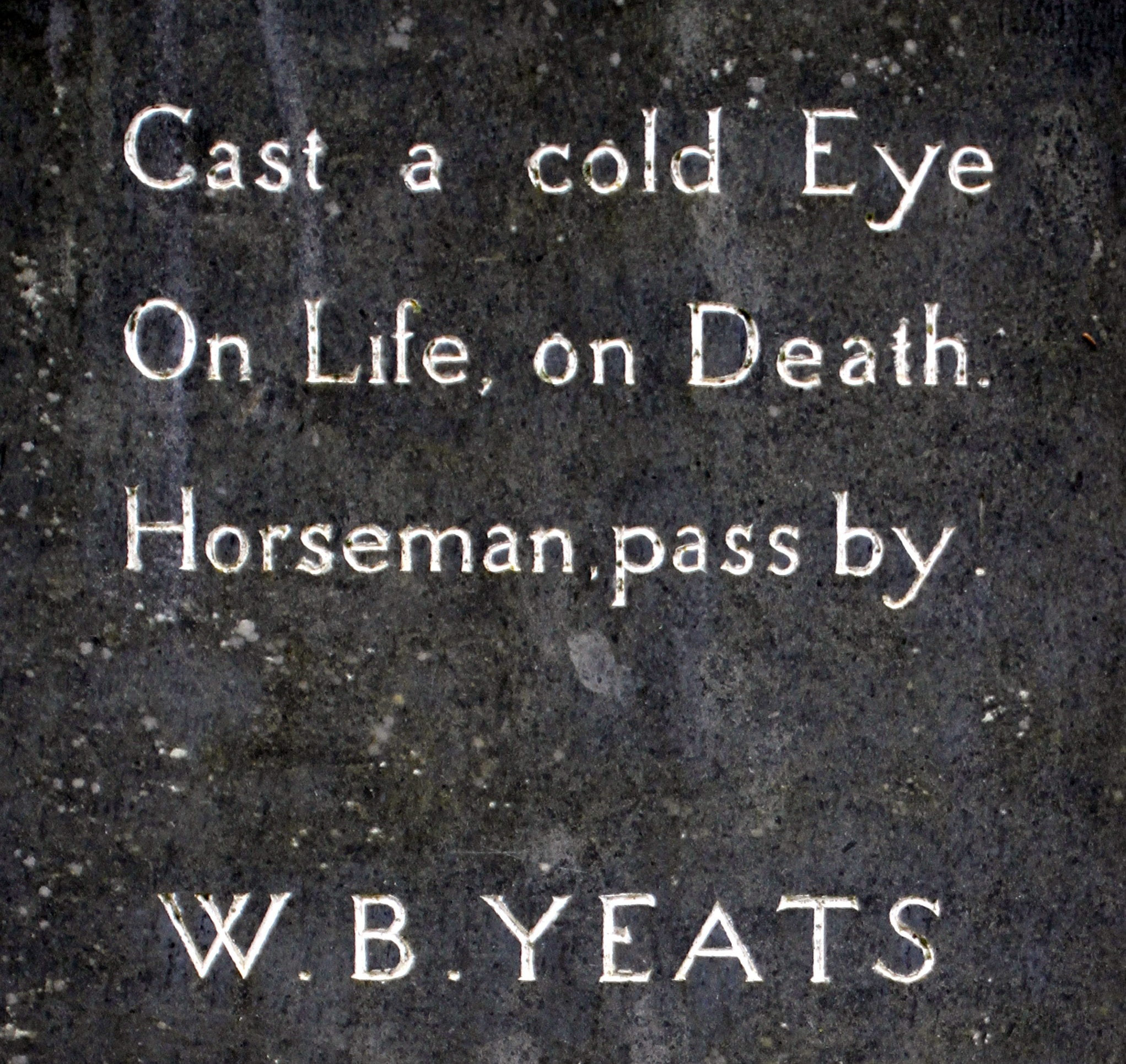 Inscription on the tombstone of William Butler Yeats in Drumcliff